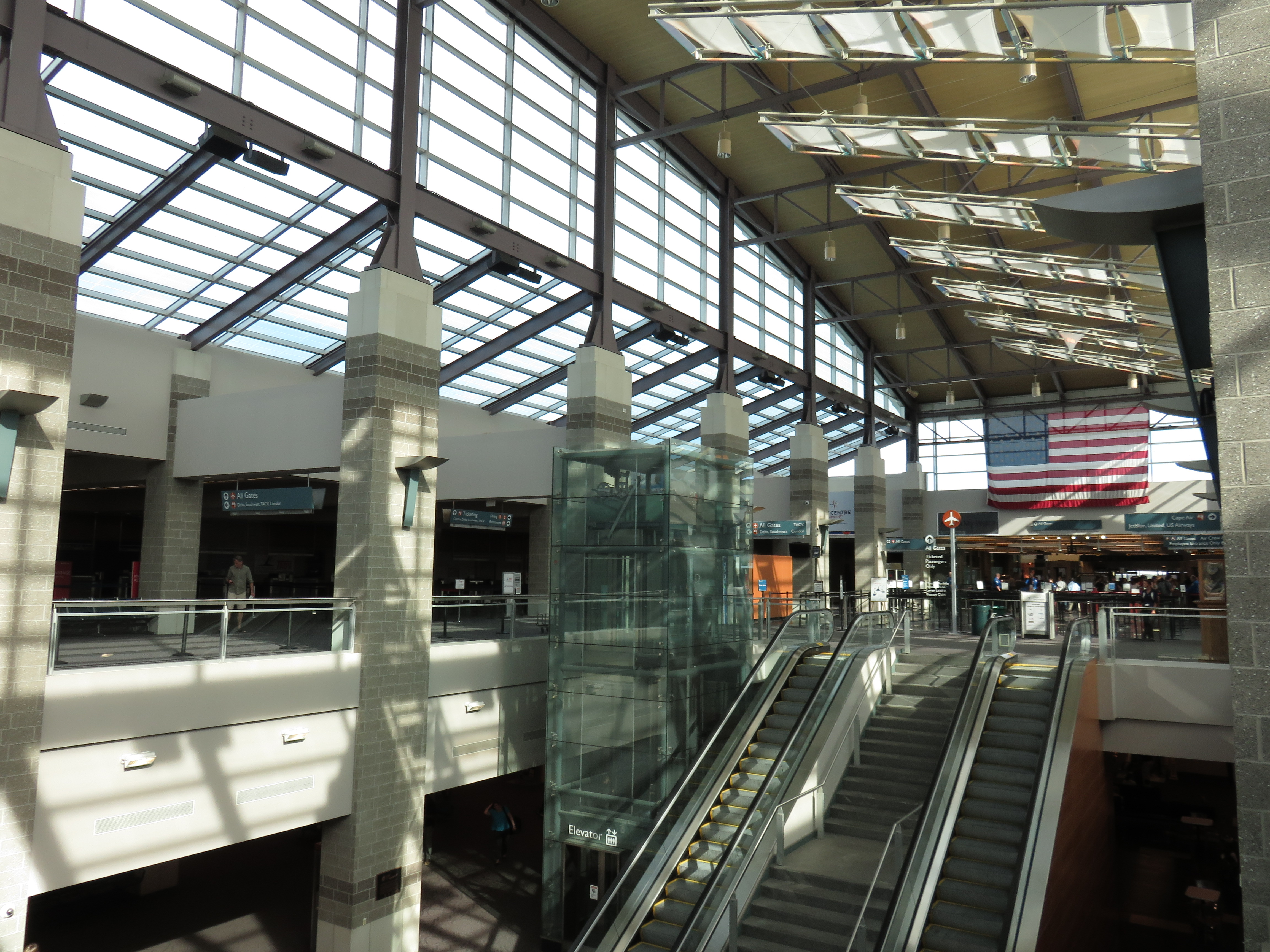 Interior of the T. F. Green Airport lobby in 2015